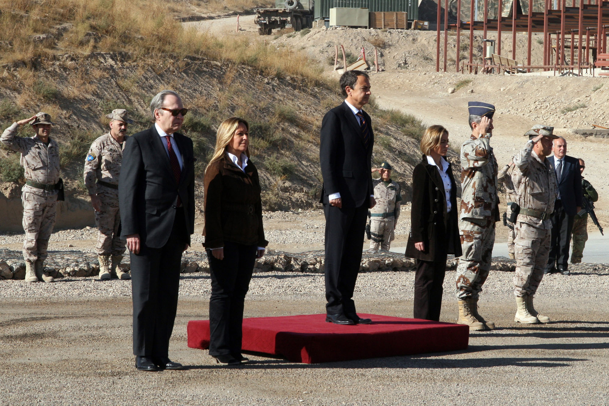 Mr. Zapatero inspects the Spanish troops during his visit to Qal eh ye now. 06th Nov 2010